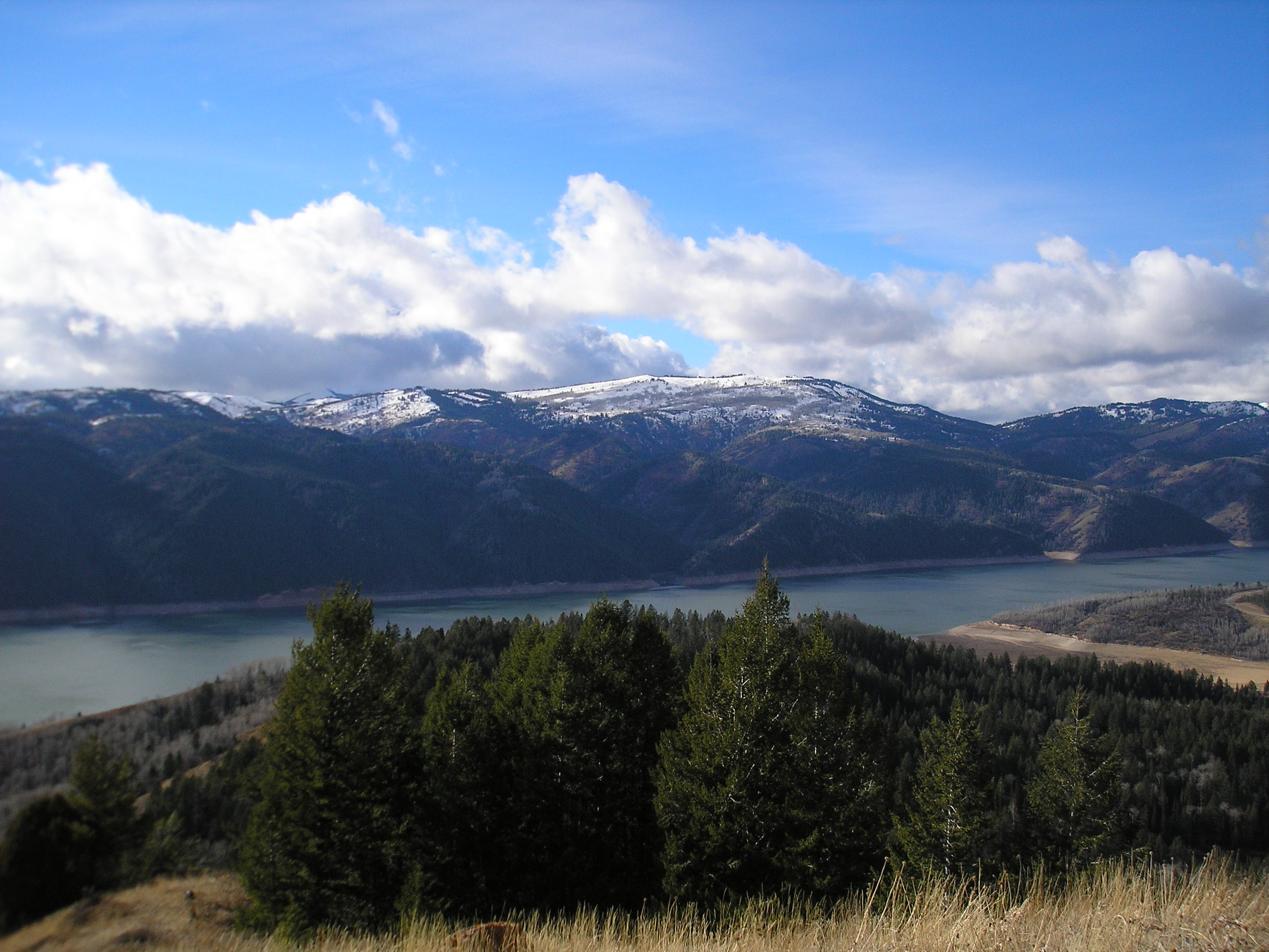 View of Palisades Reservoir